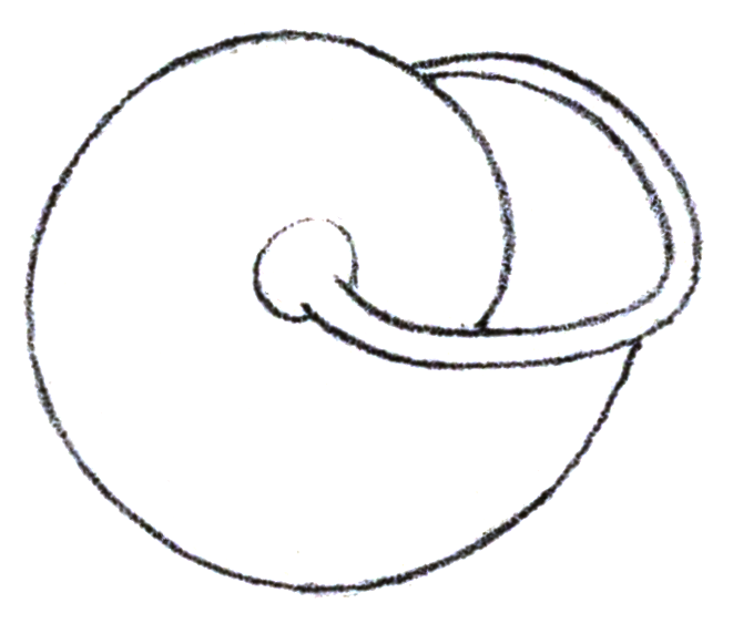 drawing of umbilical view of the shell of Pommerhelix monacha, synonym: Helix (Dorcasia) cailleti